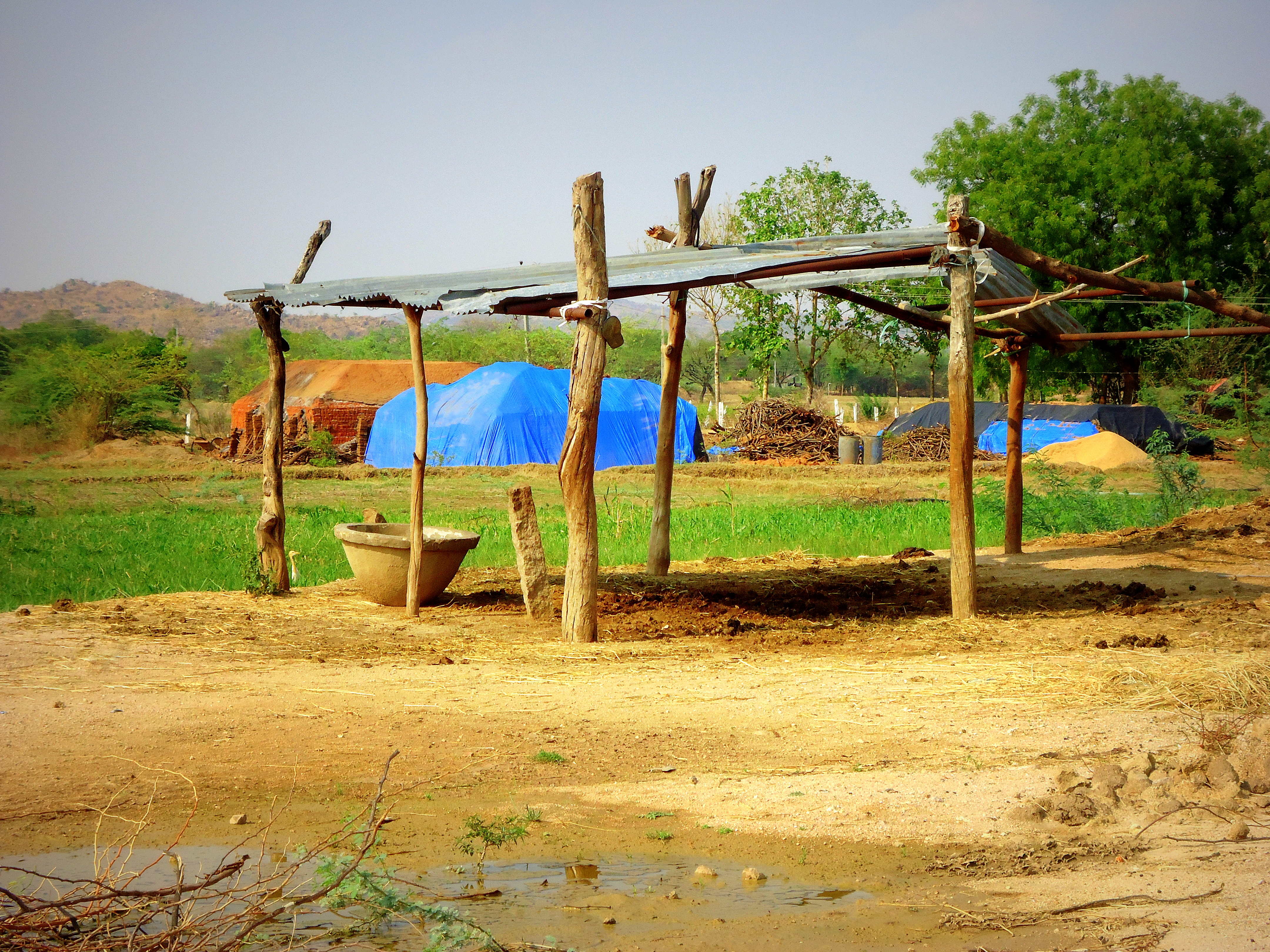 The Resting place